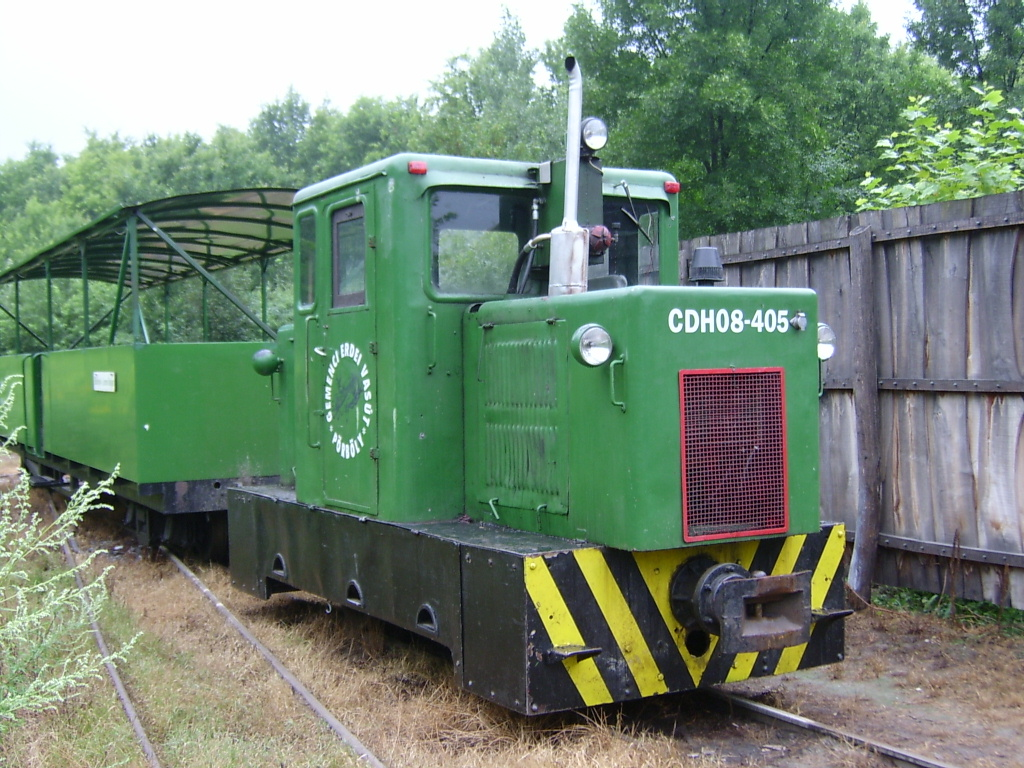 Narrow gauge lokomotiv in Forest Railway of Gemenc, Hungary